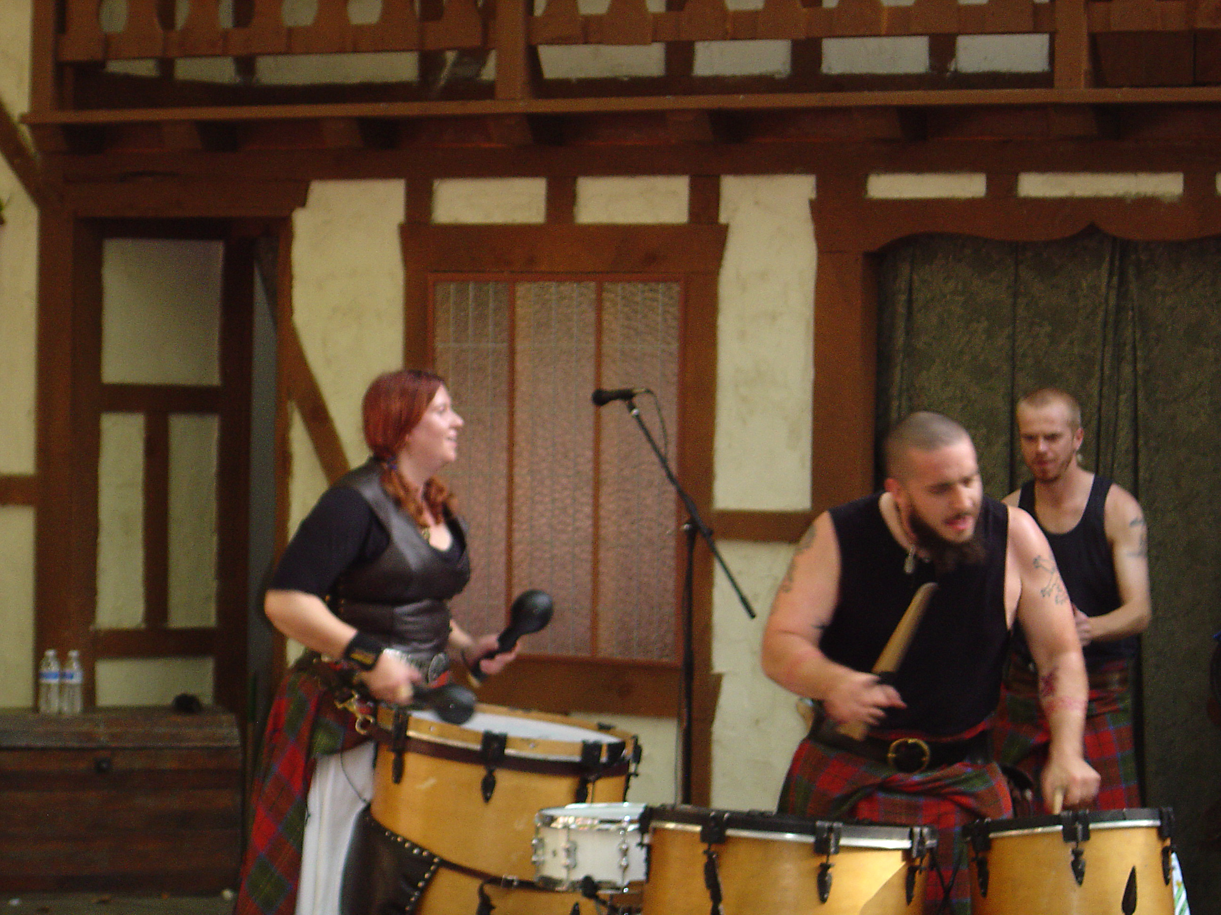 The group Albannach at Maryland Renaissance Festival (MDRF) in 2008.